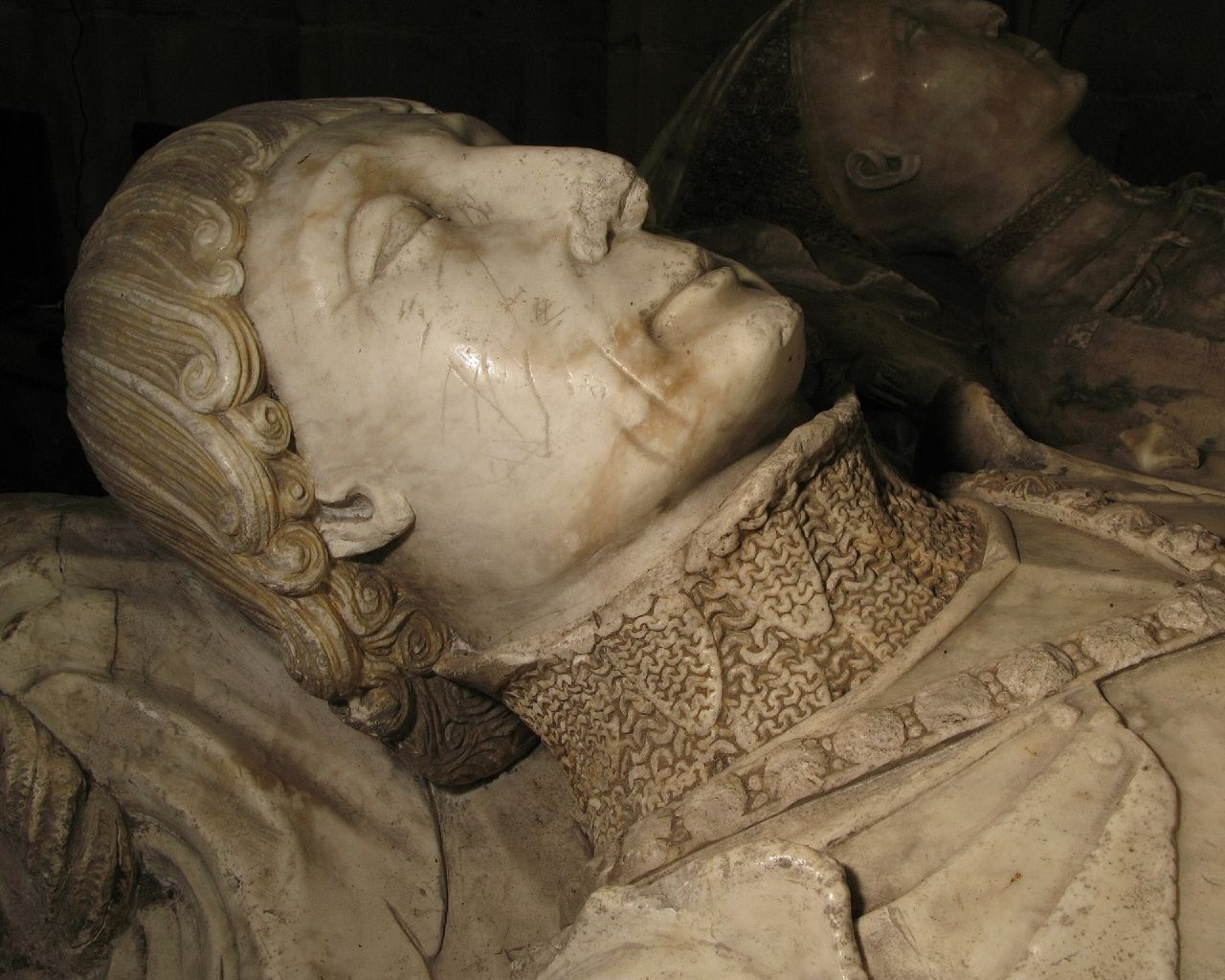 (St Mary and St Barlok)Monument to Sir Ralph Fitzherbert,d.1483,and his wife:detail in church in Norbury, Derbyshire